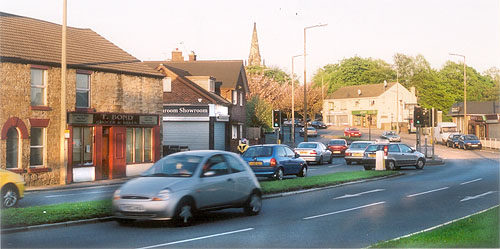 Handsworth (leste), Sheffield, Yorkshire,Inglaterra. foto: Wikityke